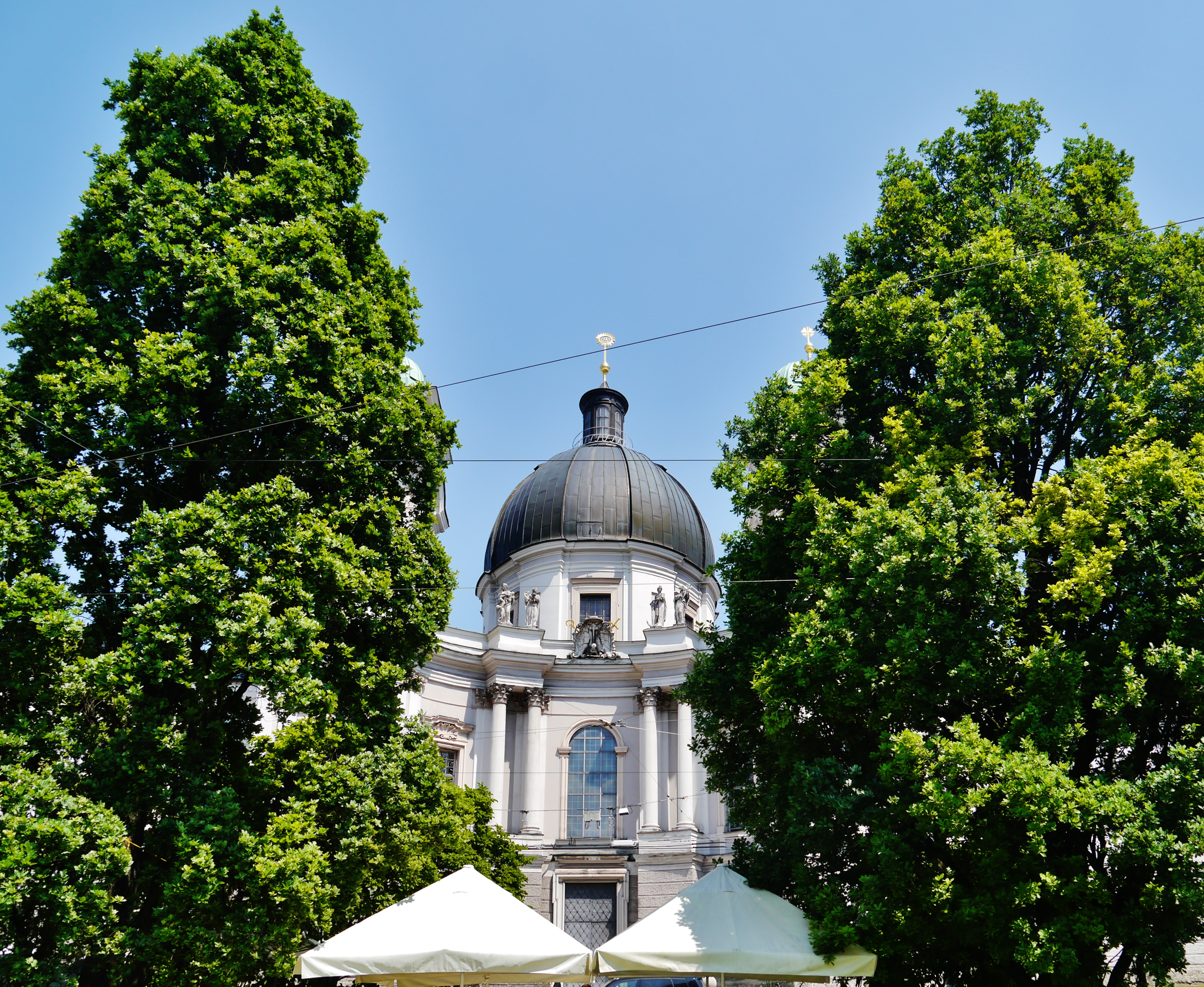 Facade of the Church of the Holy Trinity, Salzburg, Salzburg, Austria